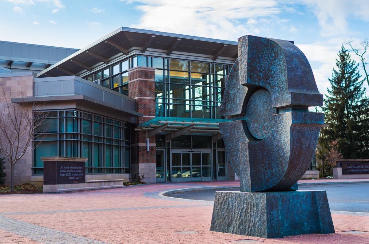 Photo taken from outside the High Center at Messiah College.